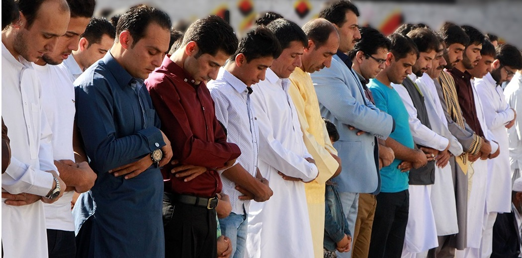 Salat Eid al-Fitr, Birjand. [1]